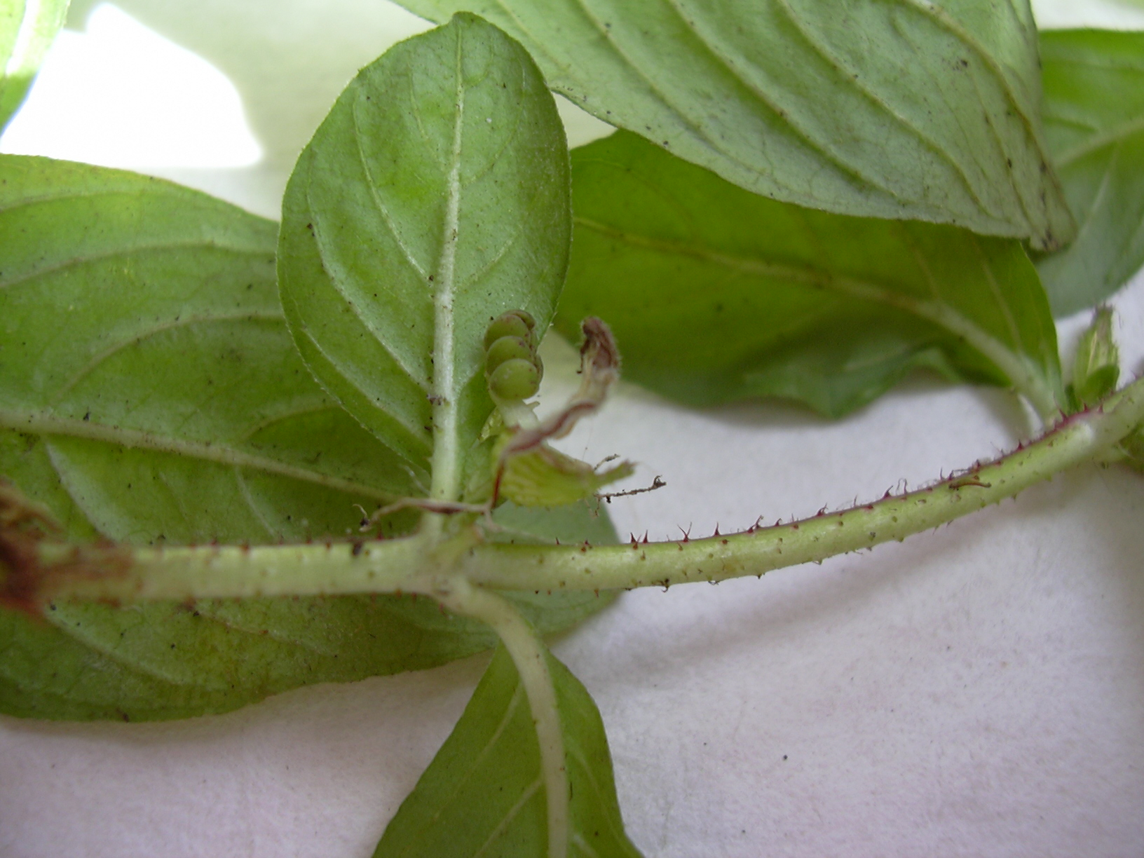 Cuphea carthagenensis (fruit). Location: Maui, Hana Hwy